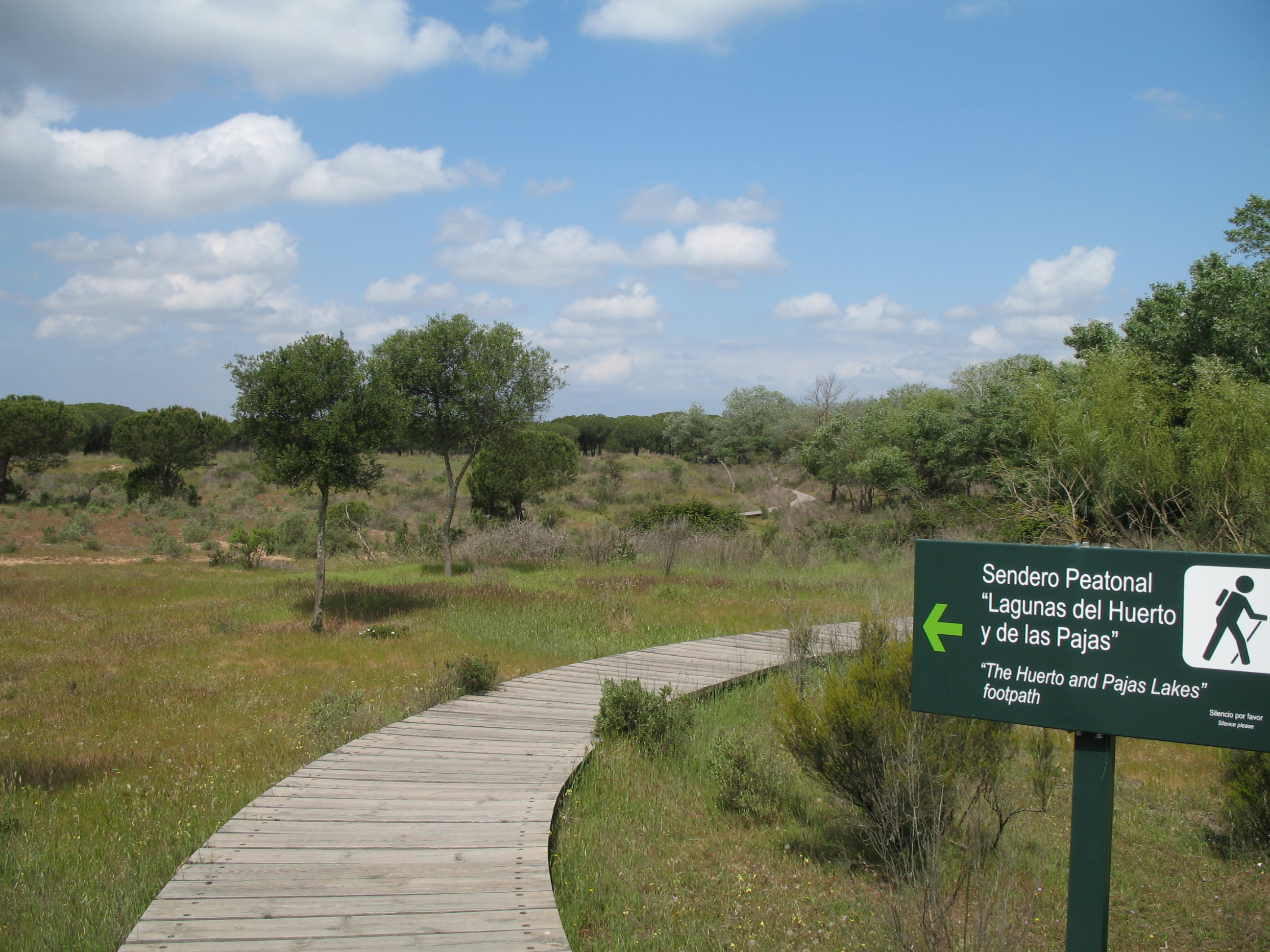 Doñana National Park, Visitors' Centre 'El Acebuche' (Almonte, province of Huelva, Spain)